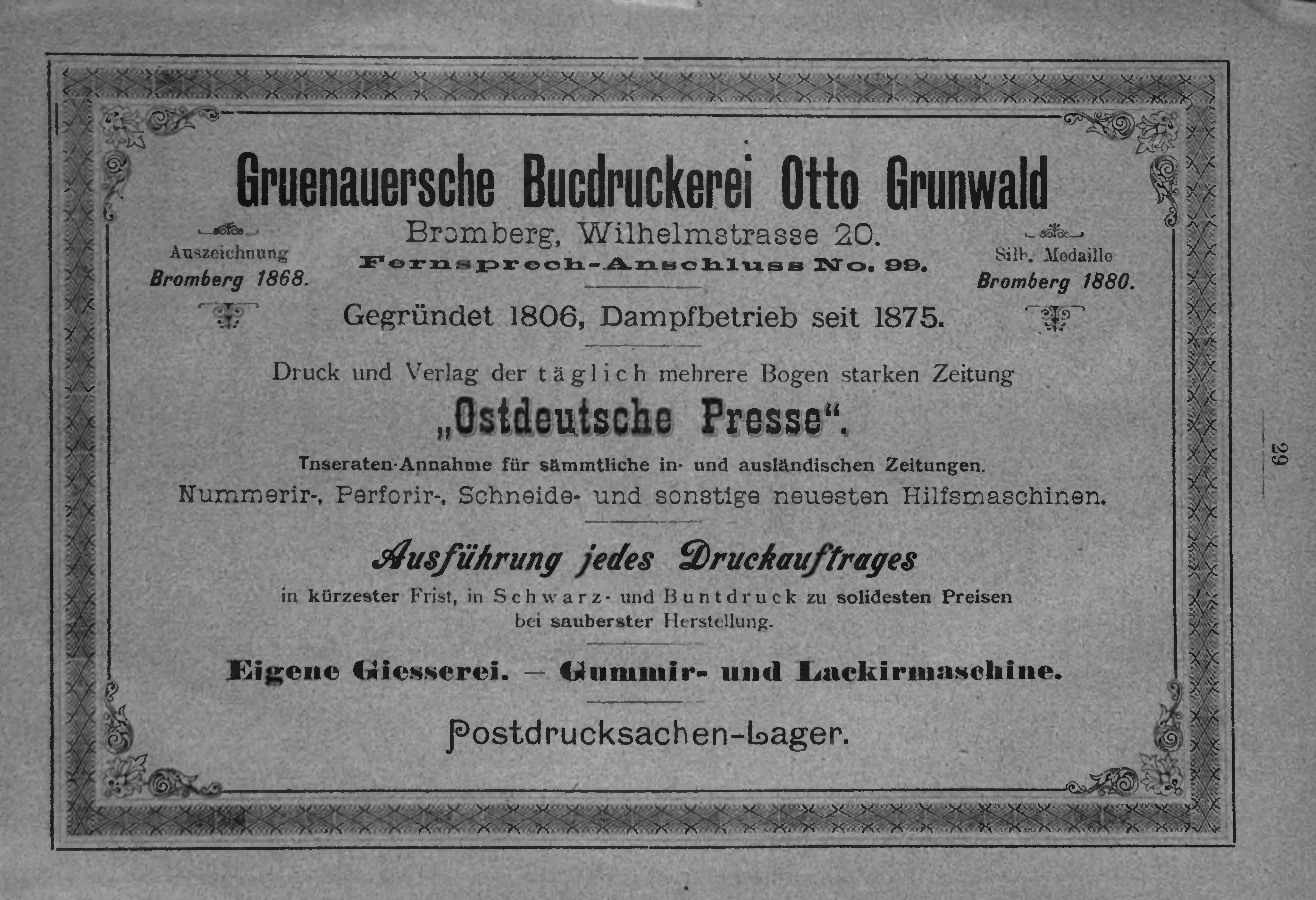 Advertisment Print houe gruenauer